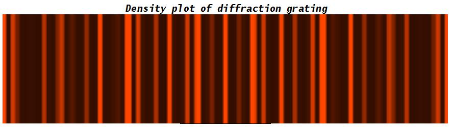 Density plot of diffraction grating